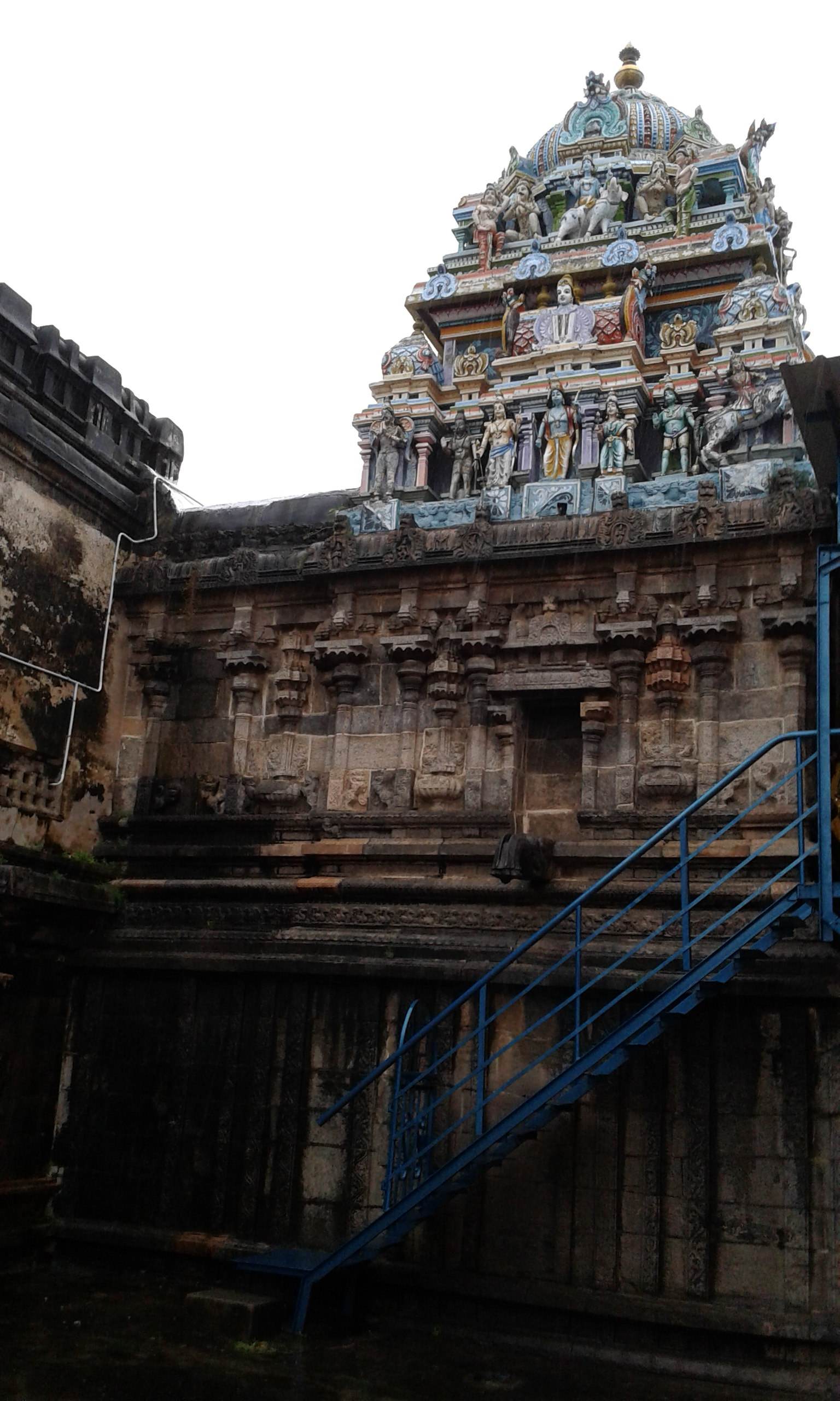 Thirunagari